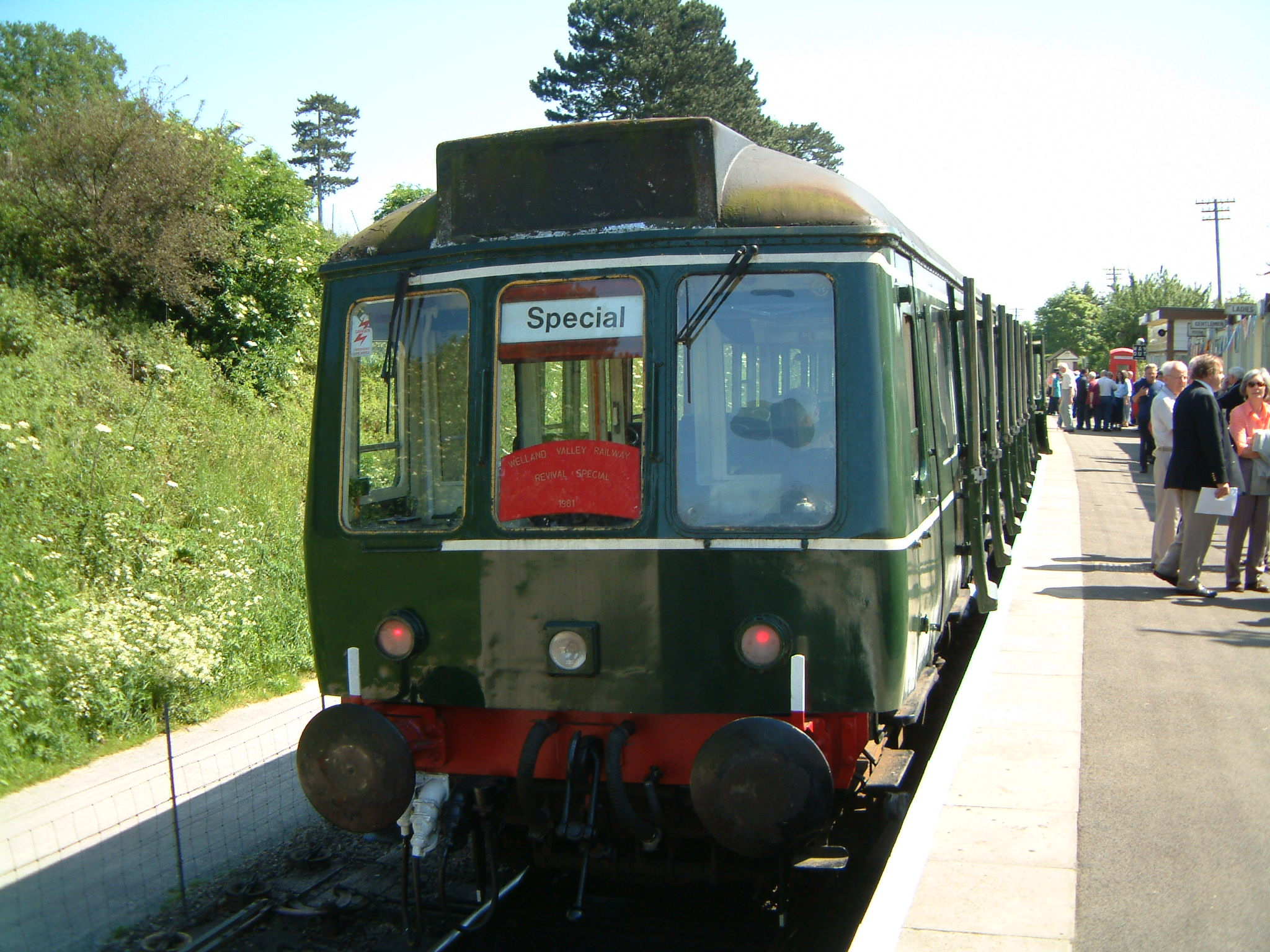 British Rail Class 117 at Pitsford and Brampton station on the Northampton & Lamport Railway. The headboard reads "Welland Valley Rail Revival Special 1981" and was carried on the last passenger train on the Northampton - Market Harborough branch line in August en:1981.